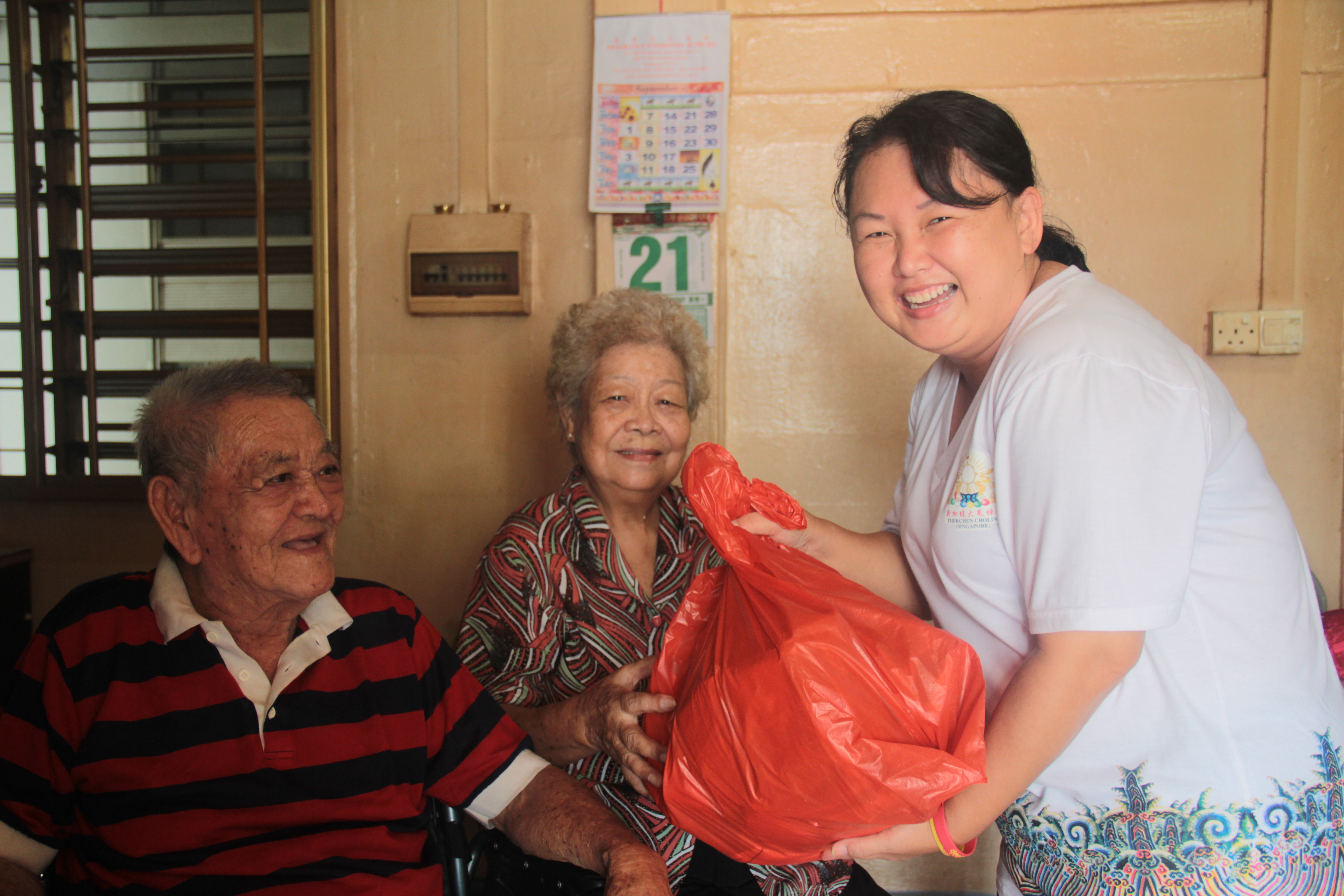 Volunteer giving Gift of Love with food rations and daily necessities to needy elderly